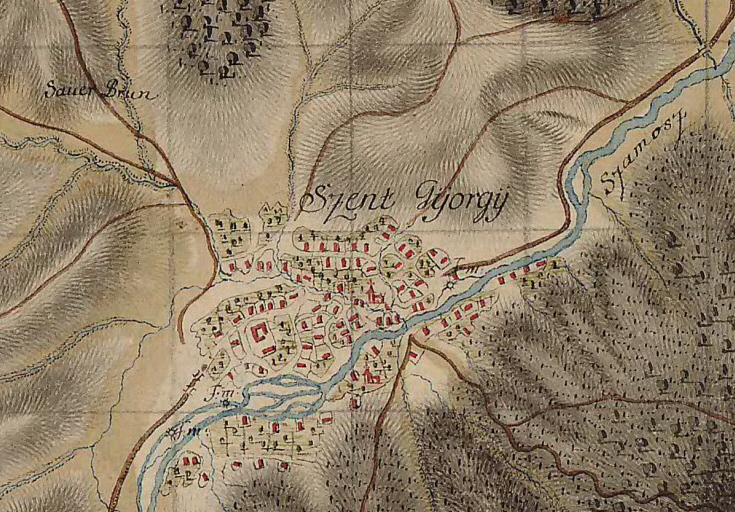 Detail of the map - location Szent Gyorgy village in Transsylvania.